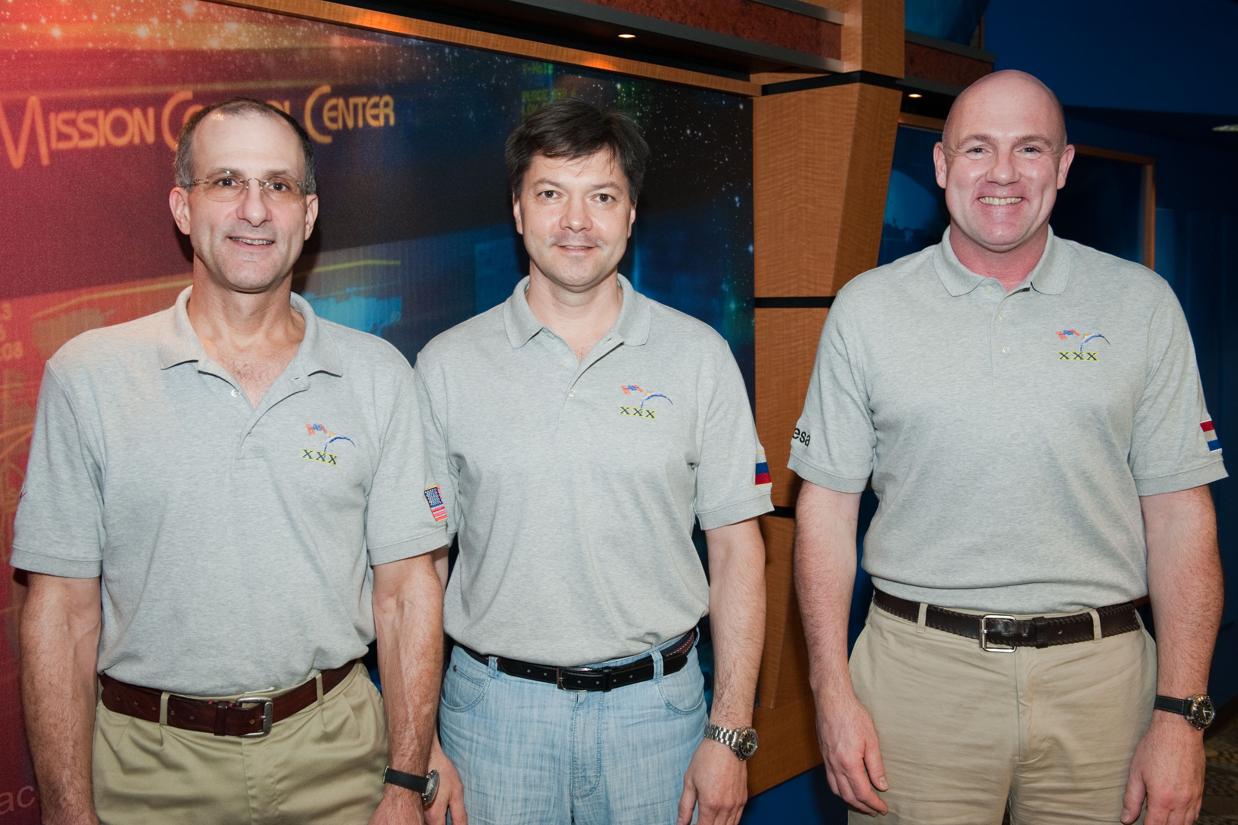 Russian cosmonaut Oleg Kononenko (center), Expedition 30 flight engineer and Expedition 31 commander; NASA astronaut Don Pettit (left) and European Space Agency astronaut Andre Kuipers, both Expedition 30/31 flight engineers, pose for a portrait following an Expedition 30/31 preflight press conference at NASA's Johnson Space Center.